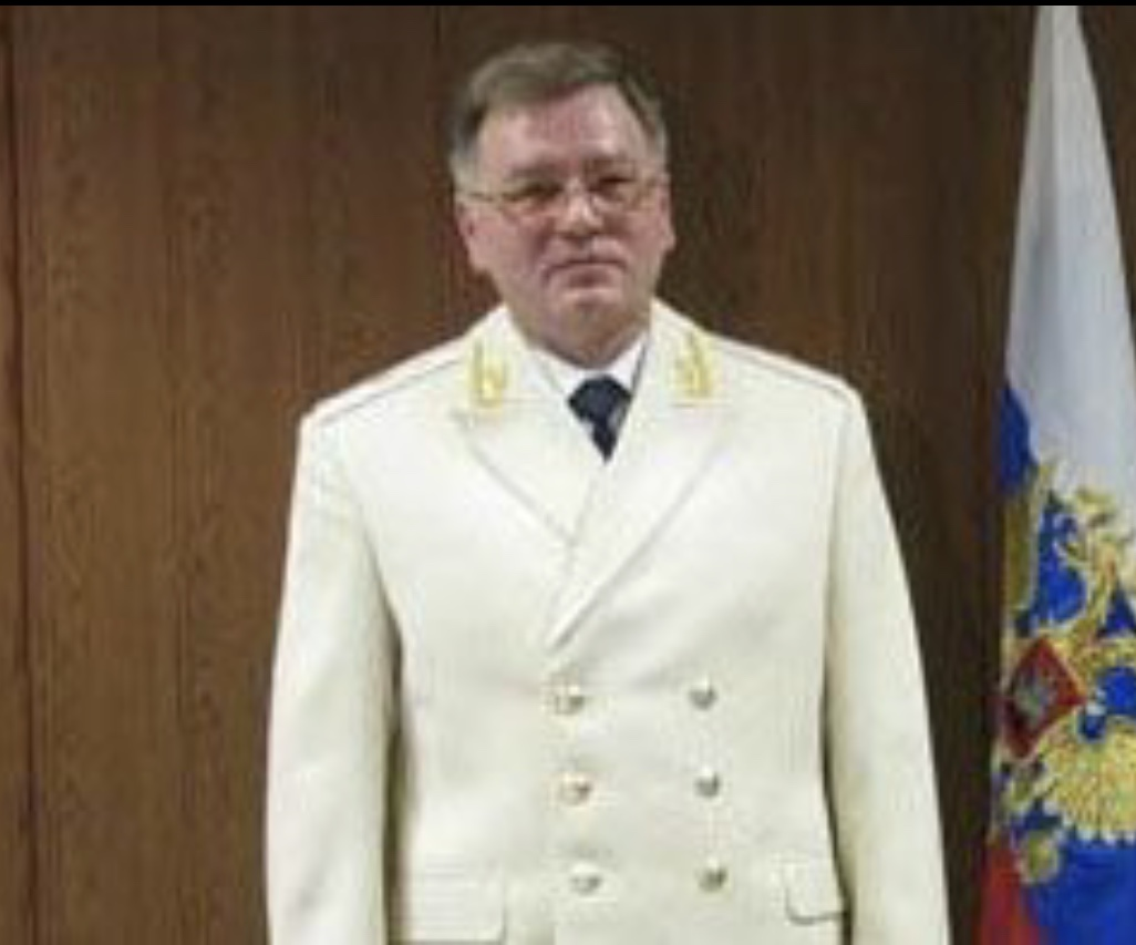 Verkhovtsev Uriy